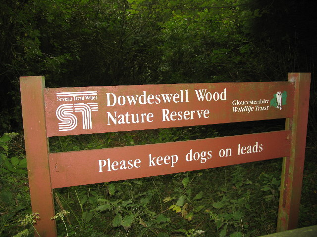 Dowdeswell Woods Entrance Sign. A Gloucestershire nature reserve overlooking the reservoir and the A40.